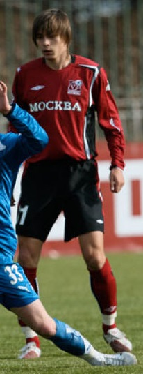 Andrei Vasyanovich as a player of FC Moscow Youth